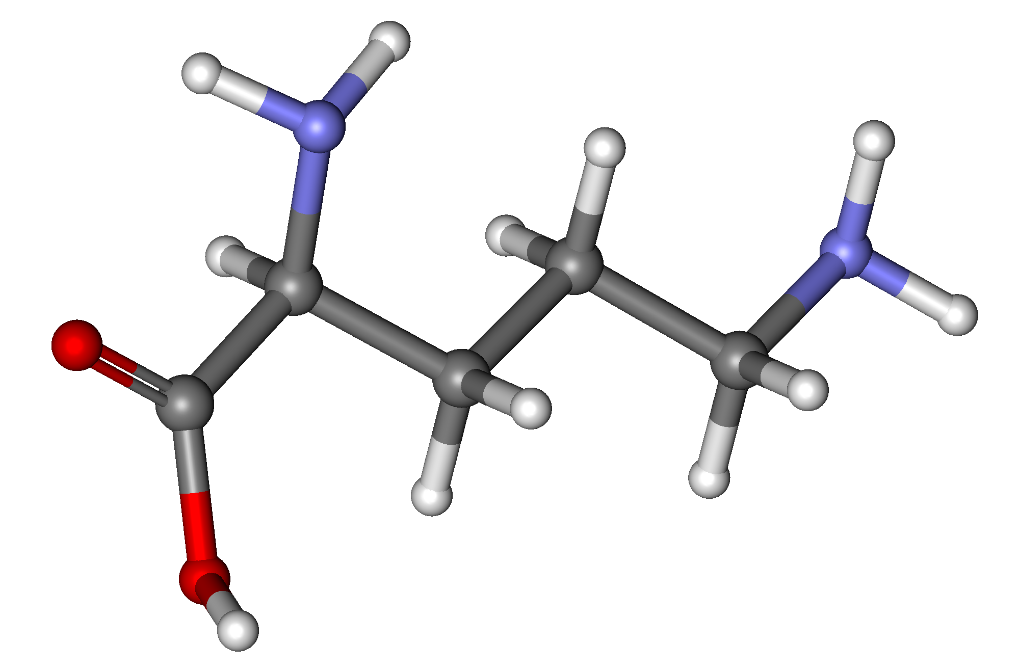 Ball-and-stick model of ornithine molecule. The structure is taken from ChemSpider. ID 6026